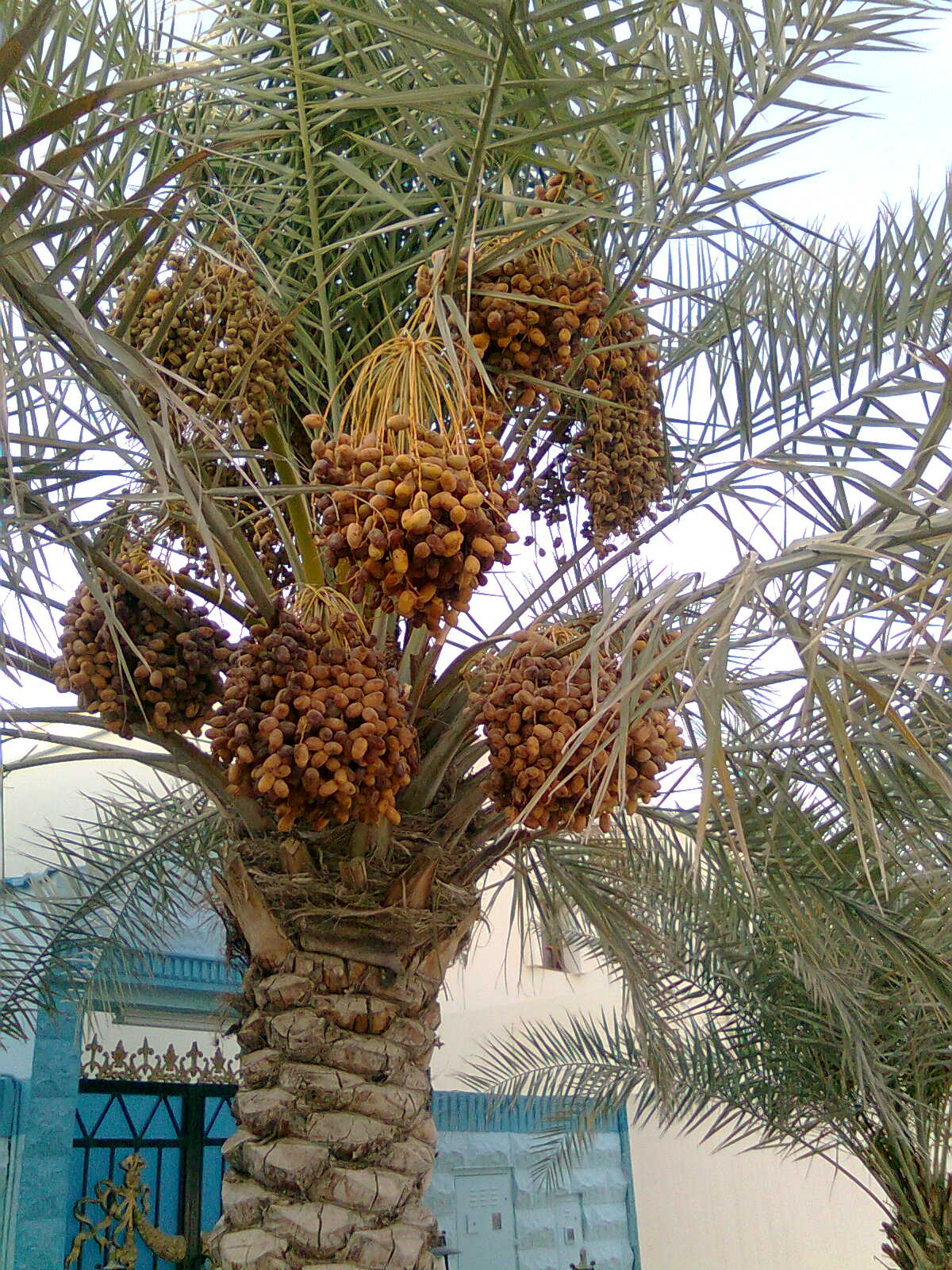 Dates qatar